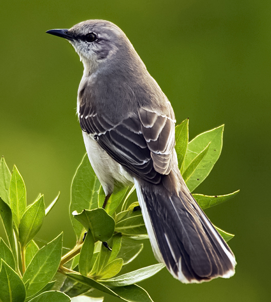 Northern mockingbird (Mimus polyglottos)